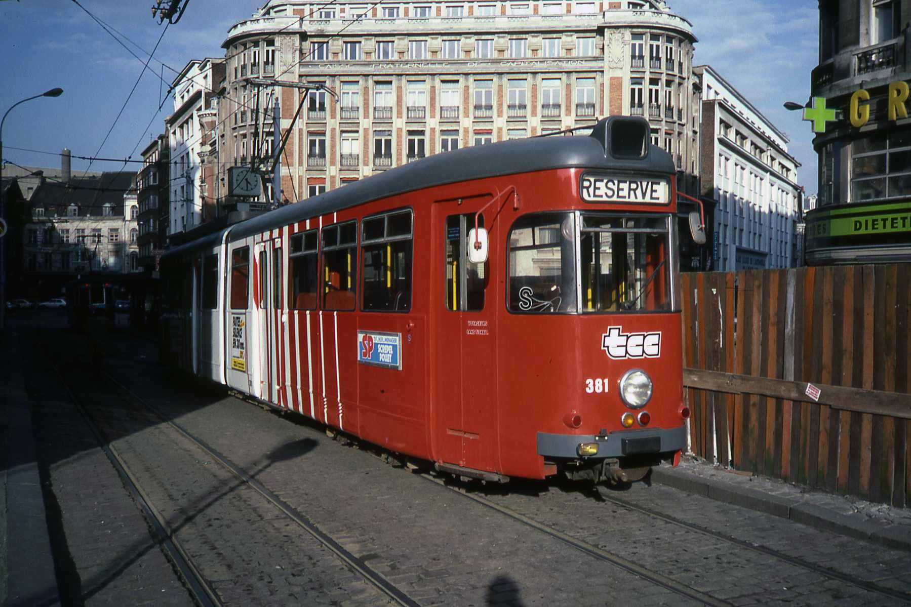 Tram terminus in city center of Lille with renovated German tram with the TCC logo.